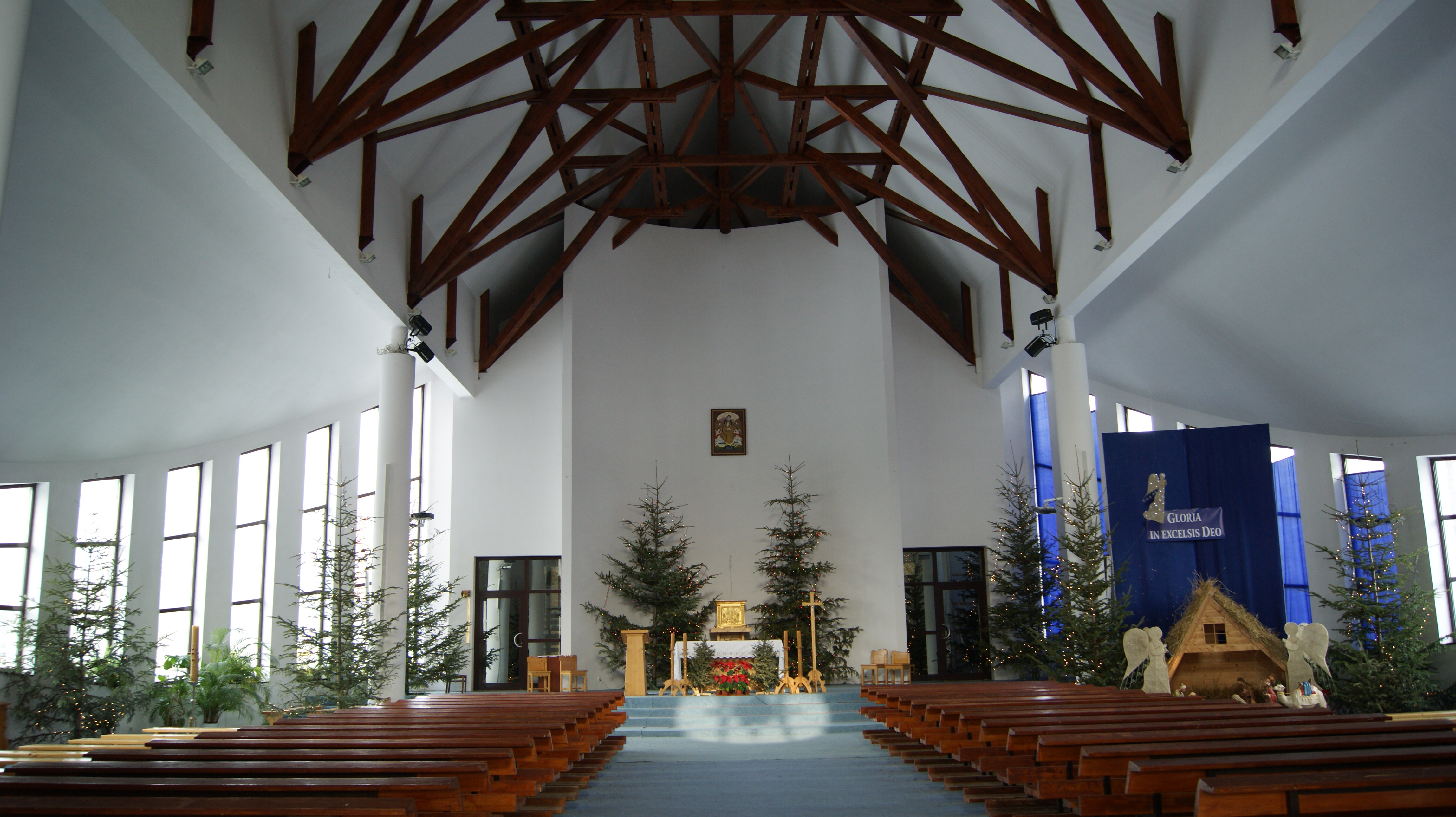 Our Lady of Consolation Church (inside),15a Bulwarowa street,Nowa Huta,Krakow,Poland